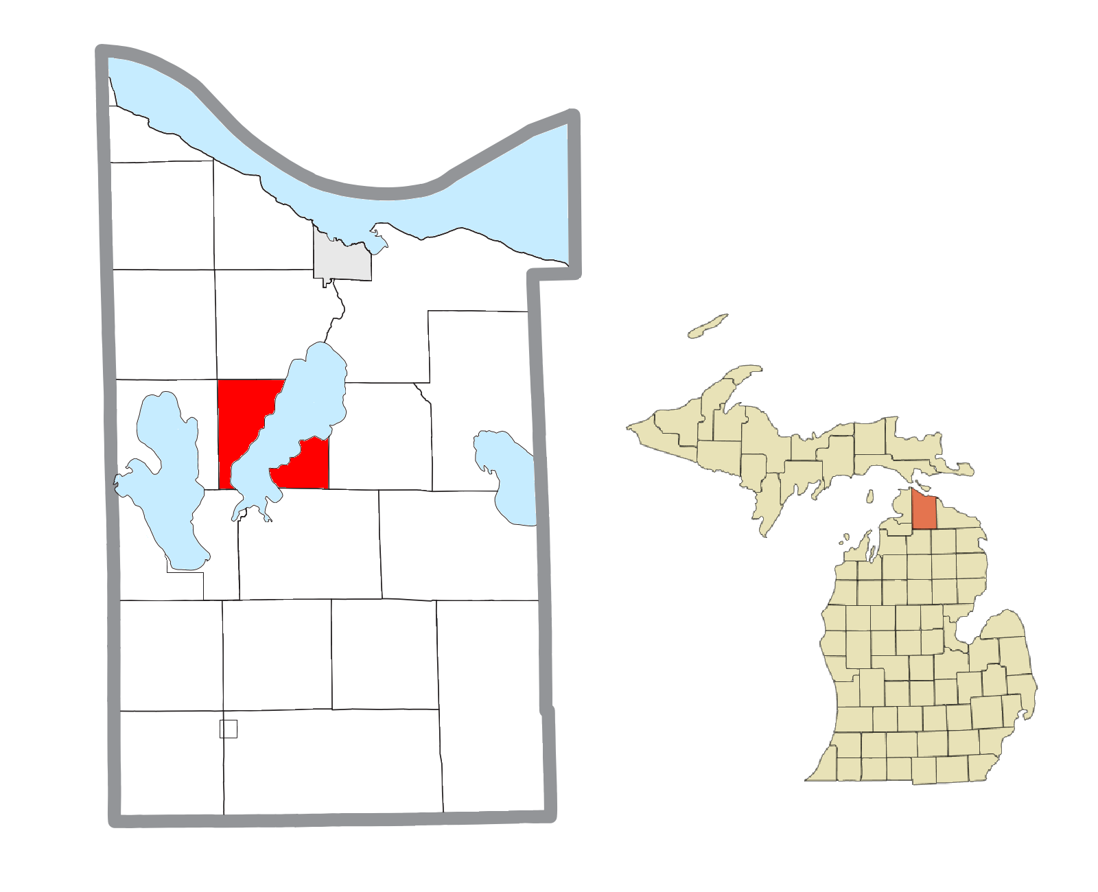 Mullett Township, MI